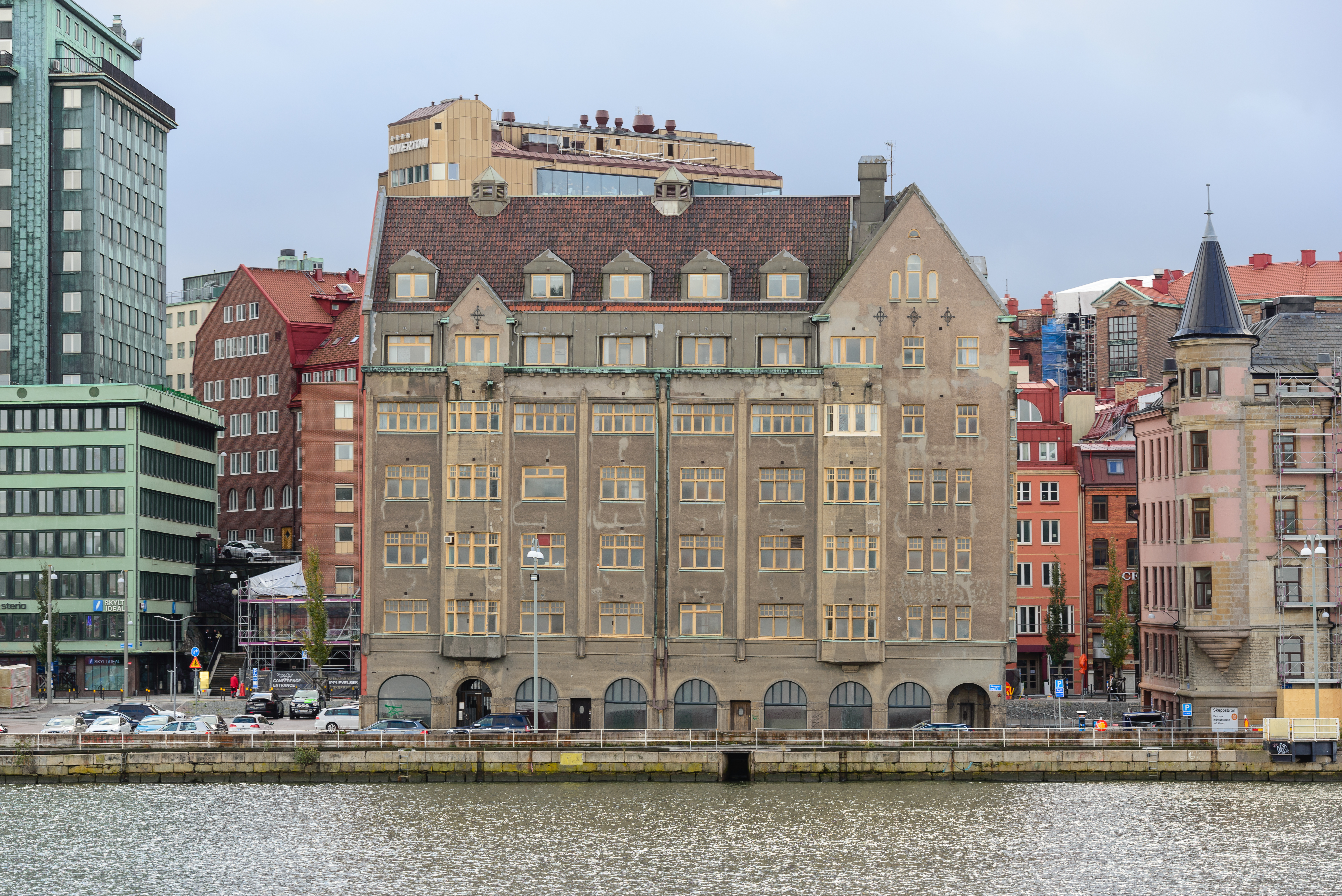 Historic office building on Skeppsbron in Gothenburg, Sweden.